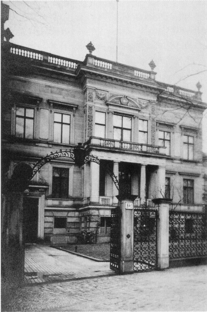 Residence of James Simon. Berlin, Tiergartenstraße 15a. Architect Carl Schwatlo